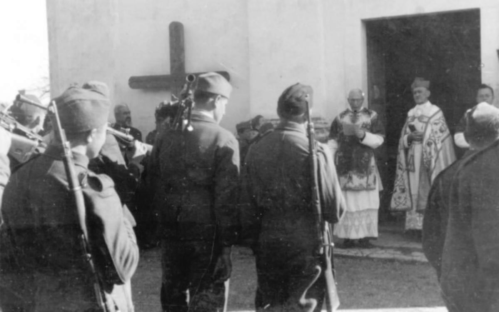 Svetozar Rittig holding a speech before a Holy Mass in Topusko